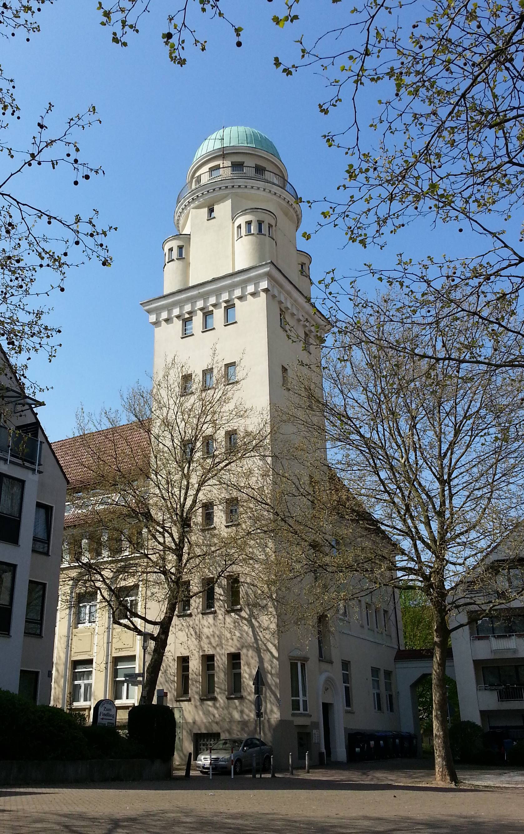 Ostmannturm (Ostmann tower) in Bielefeld, Germany